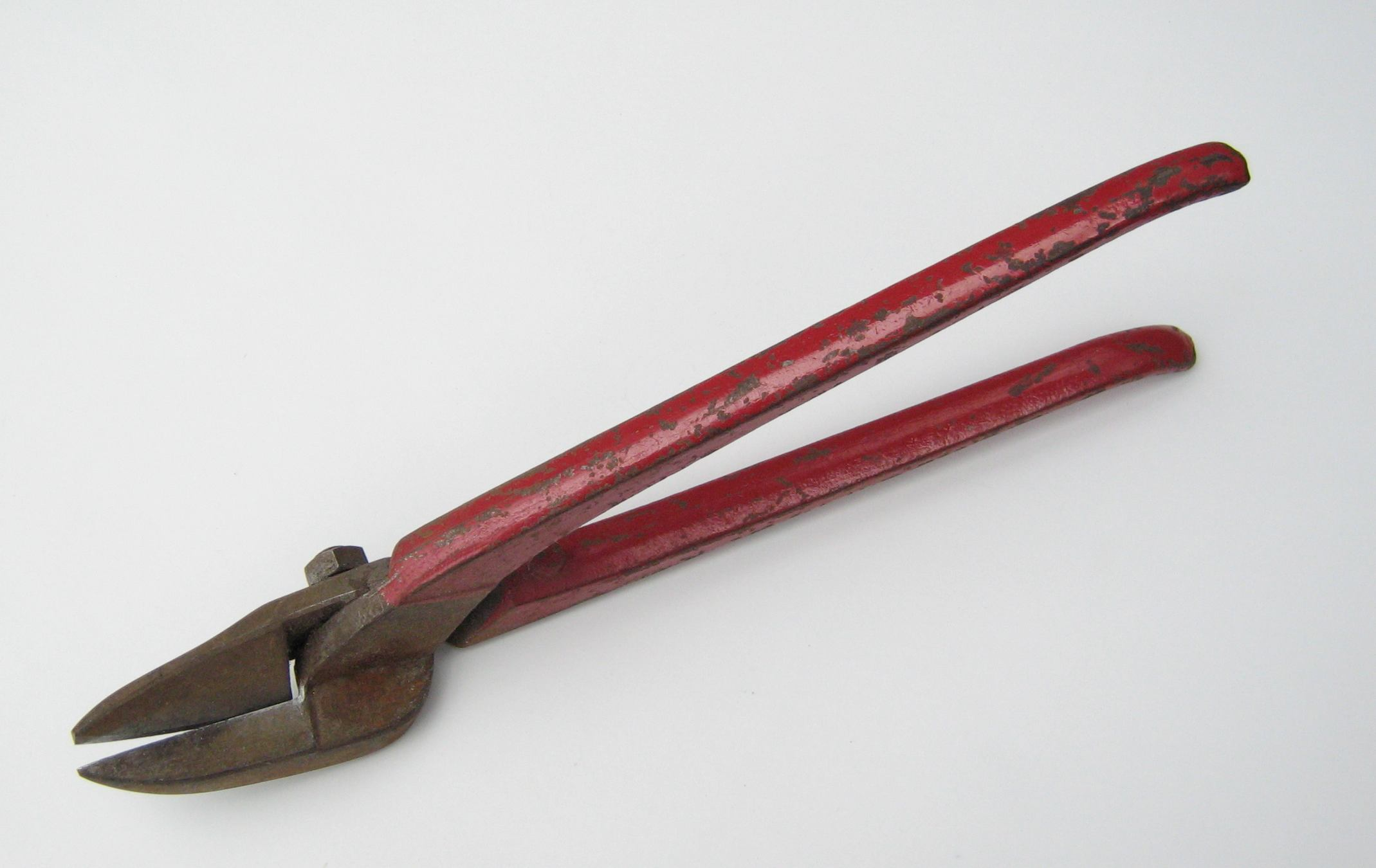 Scissors for cutting tin or other thin metal.